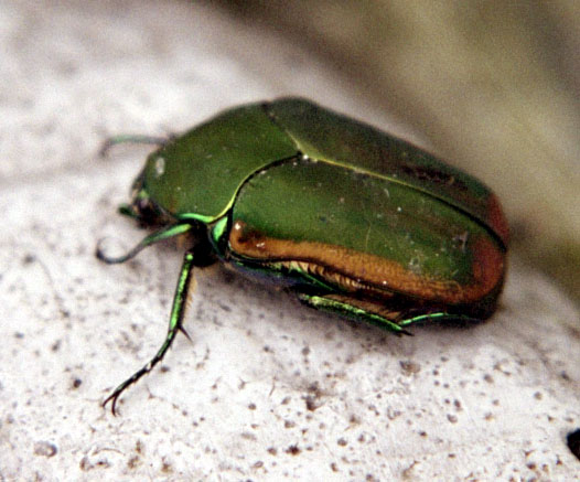 Figeater beetle Cotinis mutabilis by Ellen Levy Finch (User:Elf) fall 2005, San Jose, California